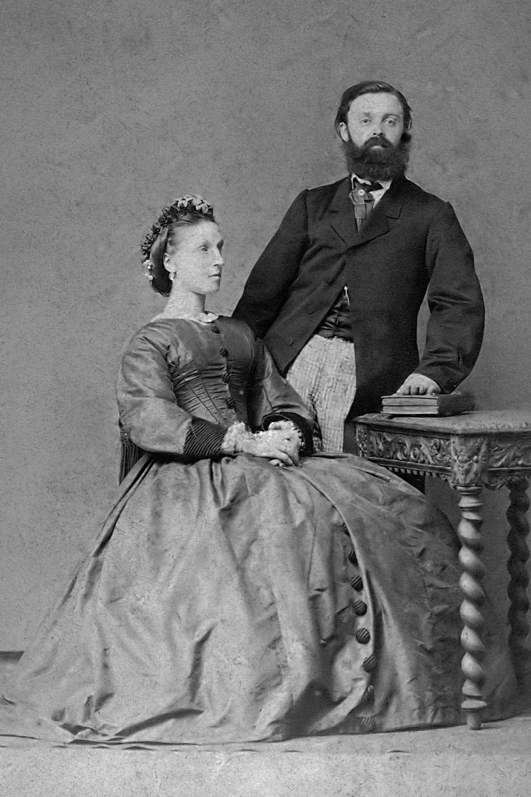 Paul Tetar van Elven and his (first?) wife. Picture made by Cesar Mitkiewicz (before 1896), most likely in Bruxelles or Oostende